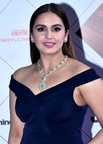 Huma Qureshi graces the HT Style Awards 2018.